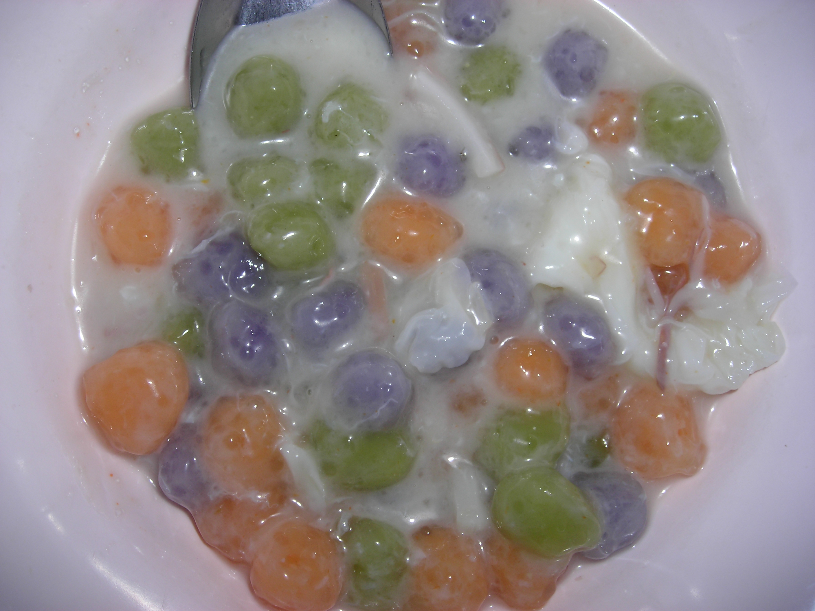 Bualoy kaiwan - Thai sweet food.